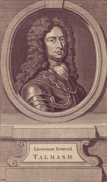 Lieutenant General Talmash (Tollemache), ca. 1750